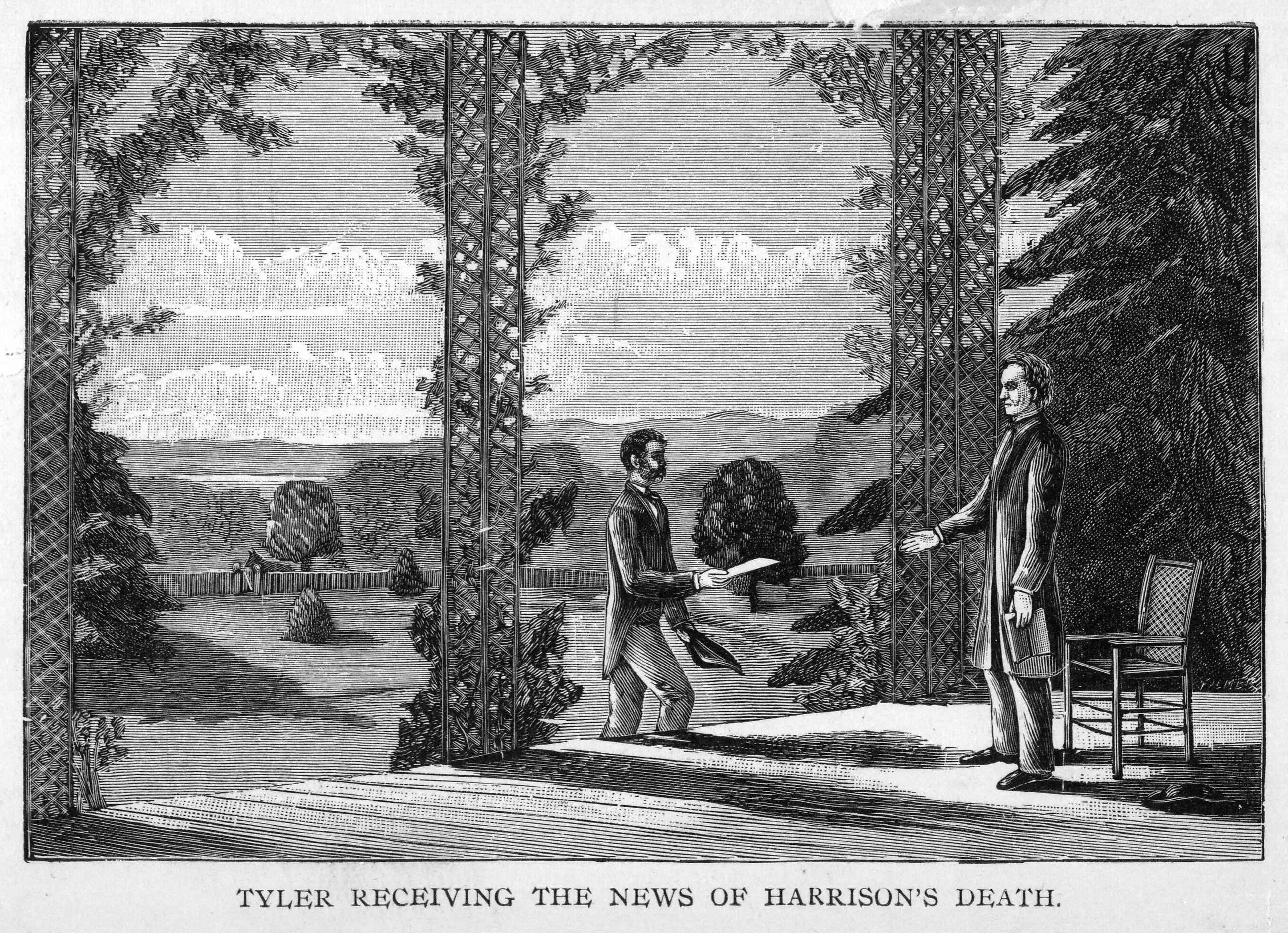 Scene of messenger, with letter in hand announcing death of President Harrison, approaching Vice President Tyler on the porch of his home in Williamsburg, Virginia.